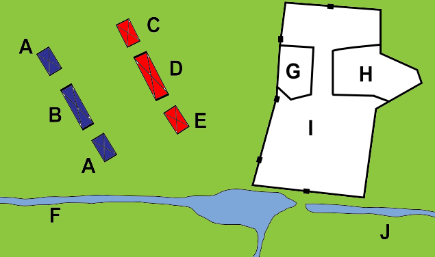 Diagram of the Battle of Lincoln, 1141; data from Jim Bradbury's "Stephen and Matilda", p.106